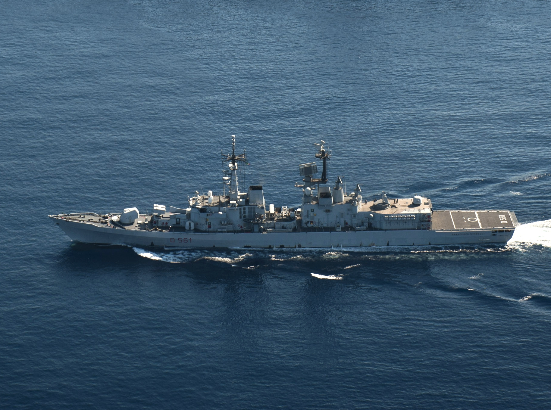 The Italian destroyer Francesco Mimbelli (D 561) underway during operations in the central Mediterranean Sea.